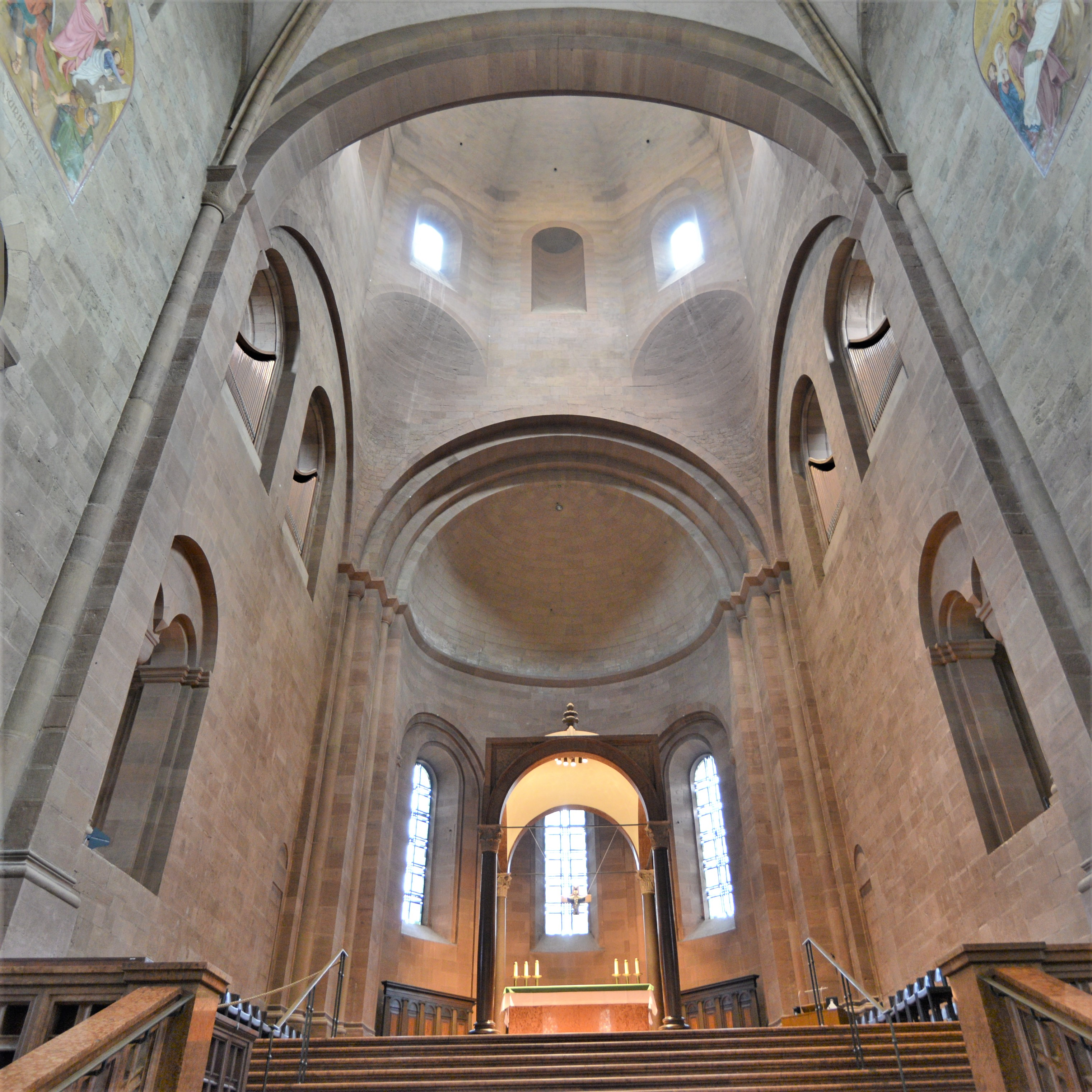 Mainz Cathedral or St. Martin's Cathedral is located near the historical center and pedestrianized market square of the city of Mainz, Germany. This 1000-year-old Roman Catholic cathedral is the site of the episcopal see of the Bishop of Mainz. Mainz Cathedral is predominantly Romanesque in style, but later exterior additions over many centuries have resulted in the appearance of various architectural influences seen today. It comprises three naves and stands under the patronage of Saint Martin of Tours. The eastern quire is dedicated to Saint Stephen. The interior of the cathedral houses tombs and funerary monuments of former powerful Electoral-prince-archbishops, or Kurfürst-Erzbischöfe, of the diocese and contains religious works of art spanning a millennium. The cathedral also has a central courtyard and statues of Saint Boniface and The Madonna on its grounds